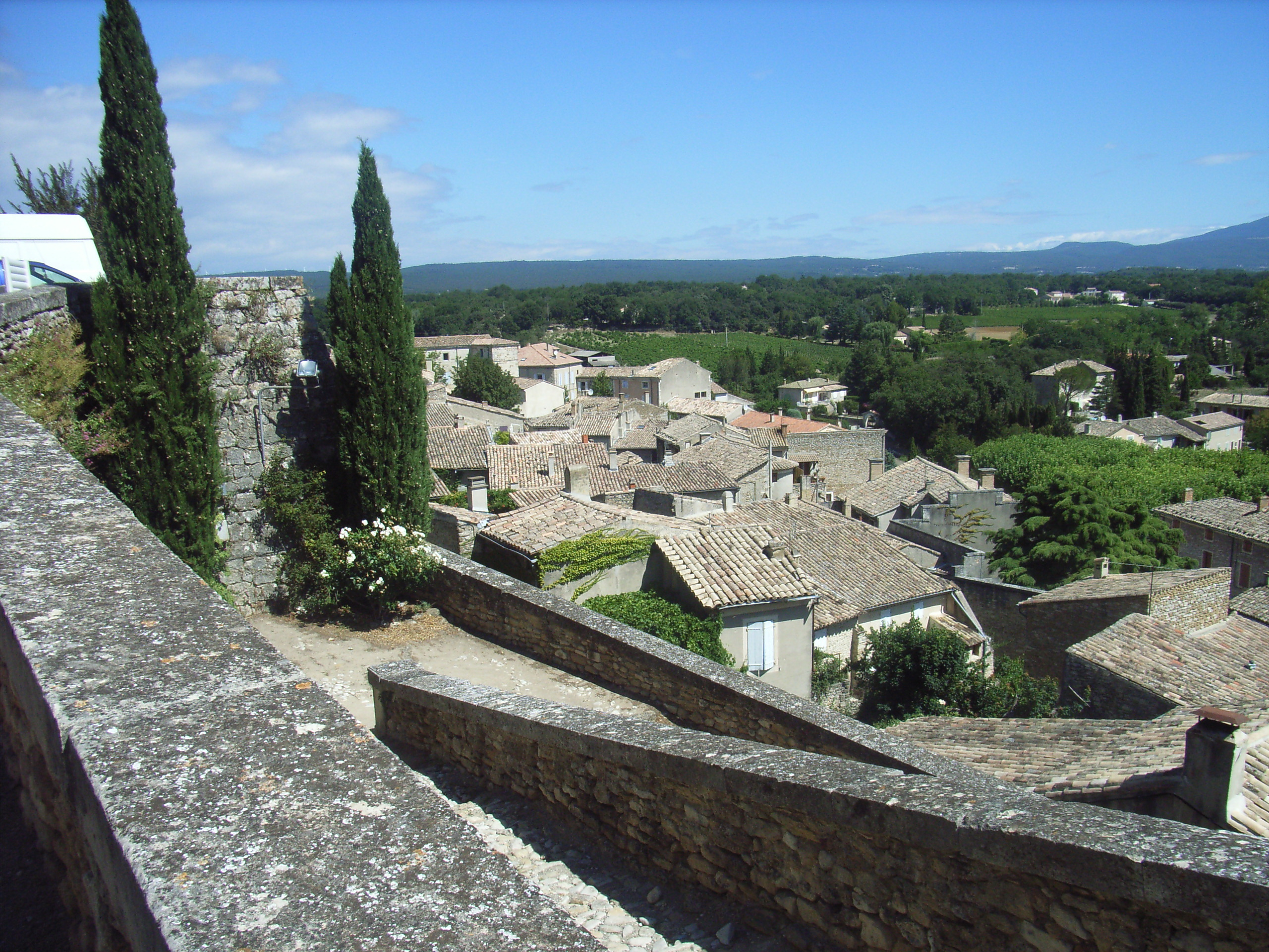 You see a part of Grignan from above